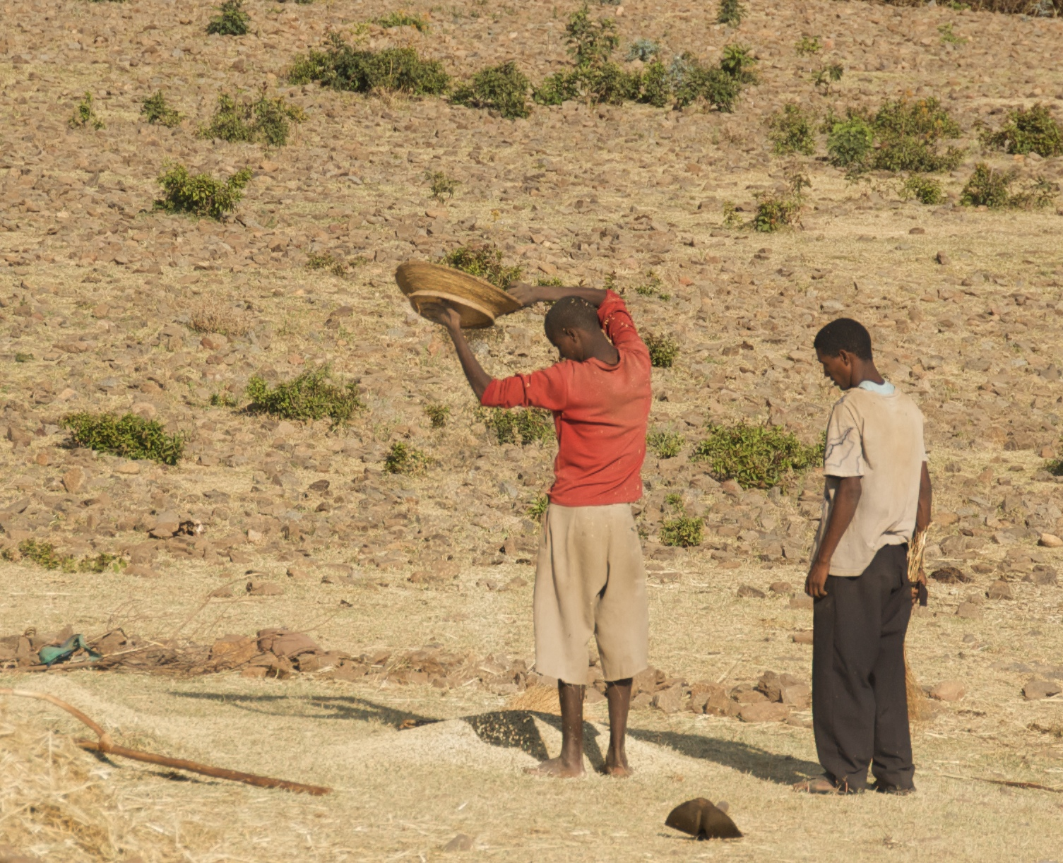 What is winnowing? Well, after the grains have been removed from the stalks by threshing (in this case, by oxen), the grain is collected in a basket, the basket is raised, say, to shoulder height and tilted, and the grain is allowed to fall to the ground. Winnowing separates the grain from the chaff. As the mixed grain and chaff fall from the basket, wind carries away the lighter chaff while the grain, which is heavier, falls into a pile on the ground. Chaff, in case you're wondering, is "the inedible, dry, scaly protective casings of the seeds of cereal grain . . ."